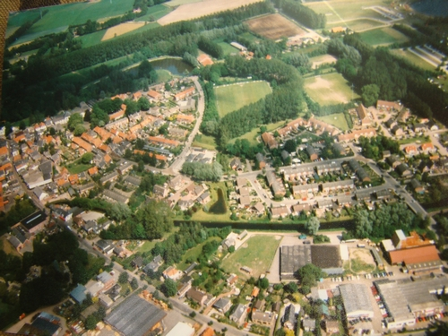 aerial picture of Bredevoort